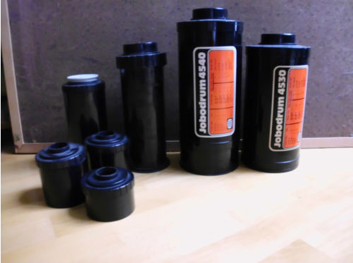 JOBO Rotary Developing Tank